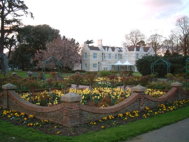 Barra Hall, Hayes Recently restored Barra Hall taken from within Barra Hall Park